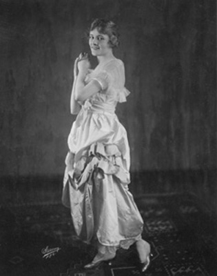 Jeanne Eagels in The Great Pursuit